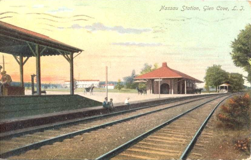 Postcard: "Nassau Station, Glen Cove, L.I.", according to caption on picture side; address side (shown on same Web page) states "Illustrated Postal Card Co., New York - Germany"